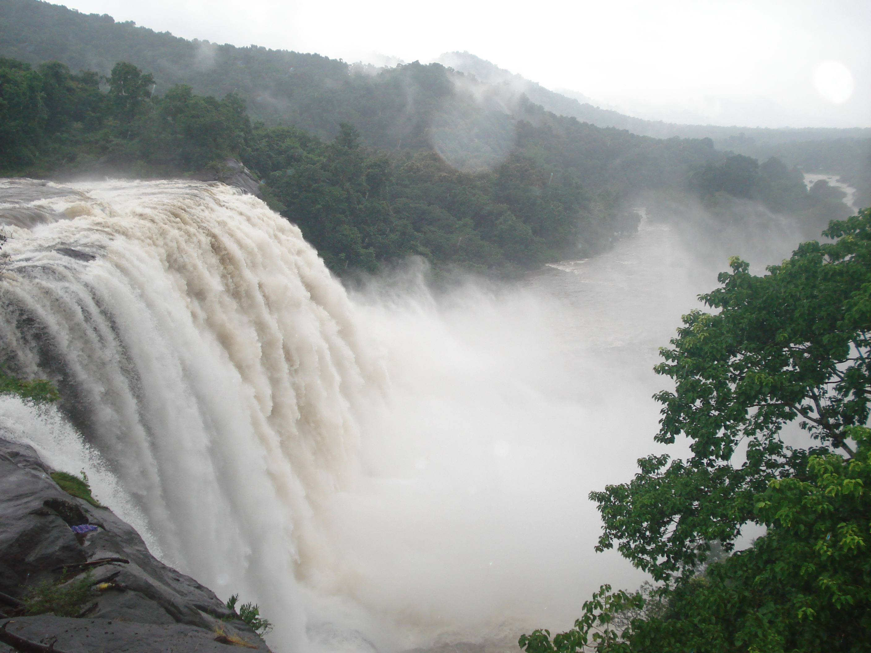 புன்னகை மன்னன் படத்தில் கமல் சார் குதித்த மலை உச்சி அருவி ..